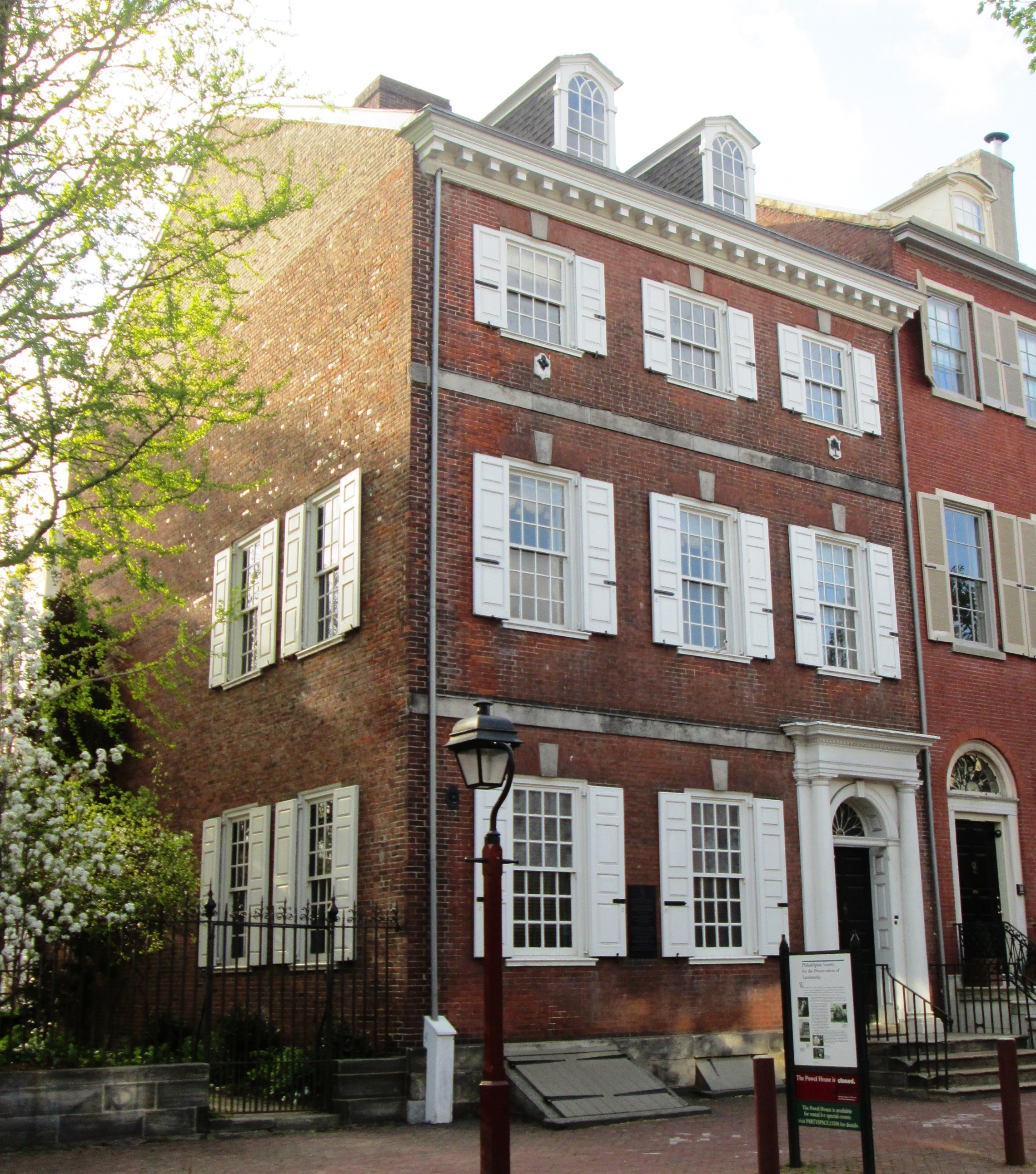 Powel House is a historic mansion/museum located at 244 South 3rd Street between Willings Alley and Spruce Street in the Society Hill neighborhood of Philadelphia. Built in 1765, it has been called "the finest Georgian row house in the city." Merchant and shipmaster Charles Stedman never got the chance to live in his new home, as he fell into financial difficulties, sold the house in 1769 to Samuel Powel, who would become the last mayor of Philadelphia under British rule, and the city's first mayor after the Revolution; he was later dubbed the "Patriot Mayor." In the 20th century, the house had become a warehouse, and was slated for destruction, but was saved by the Philadelphia Society for the Preservation of Landmarks in 1931, and restored to its previous elegance as a museum which showcases the daily lives of wealthy Philadelphians at the time of the American Revolution.